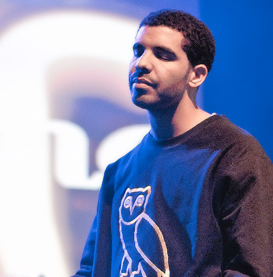 Drake at the Sound Academy, Toronto, Ontario, Canada.